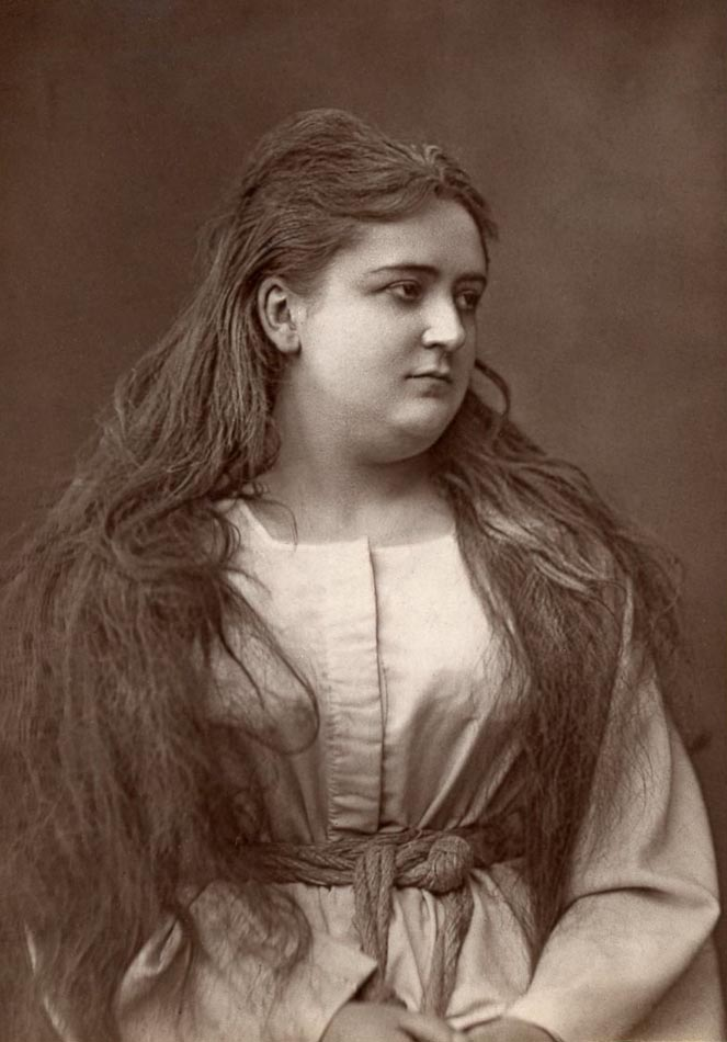 Photograph of the French operatic soprano Marguerite Baux as Marguerite in Faust at the Paris opera in 1877